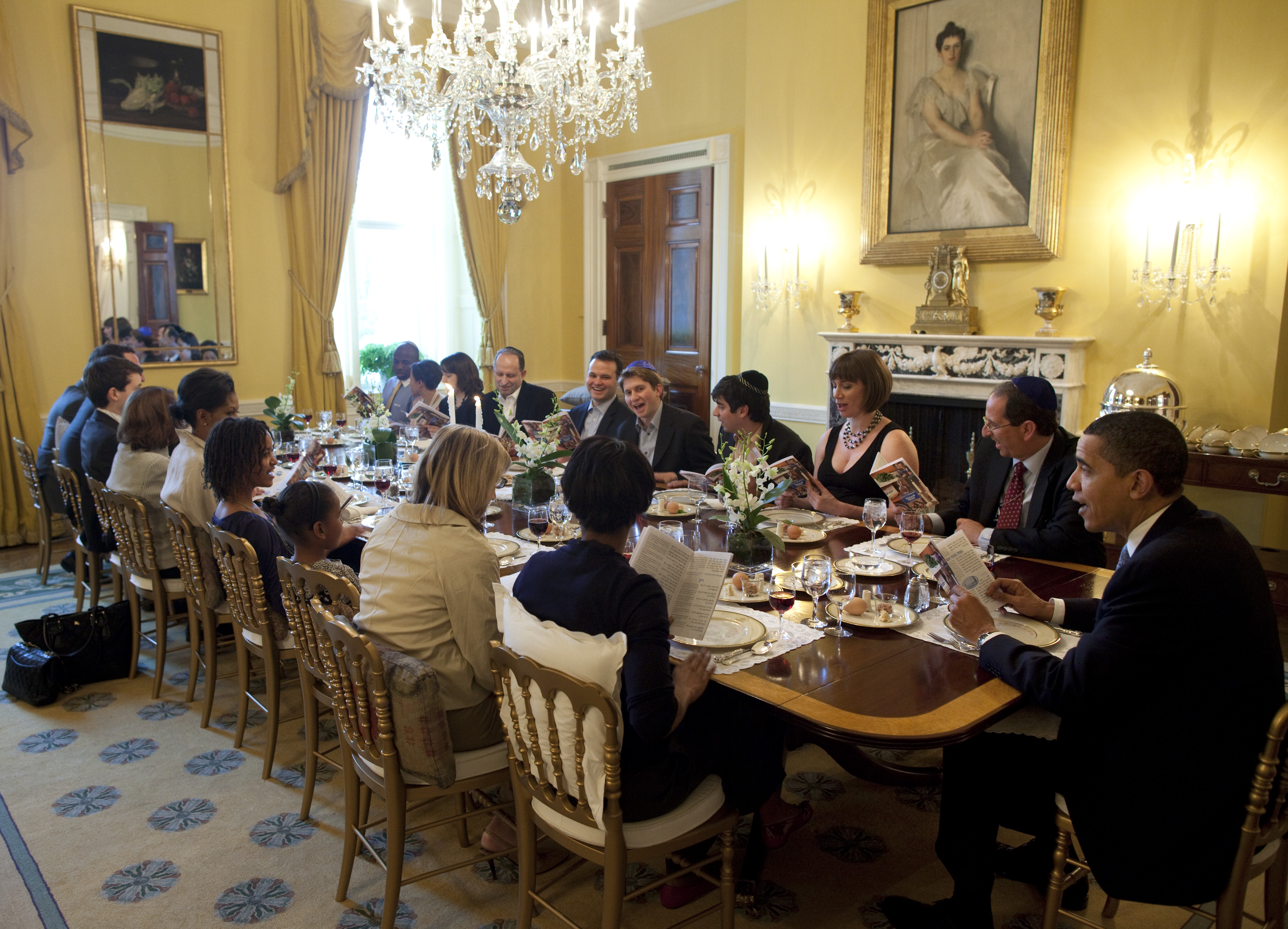 President Obama hosts a traditional Passover Seder Dinner on Thursday night, 9 April 2009. Some friends and White House employees and their families joined the Obama family. The party is seated on Chiavari chairs in the Family Dining Room of the White House.